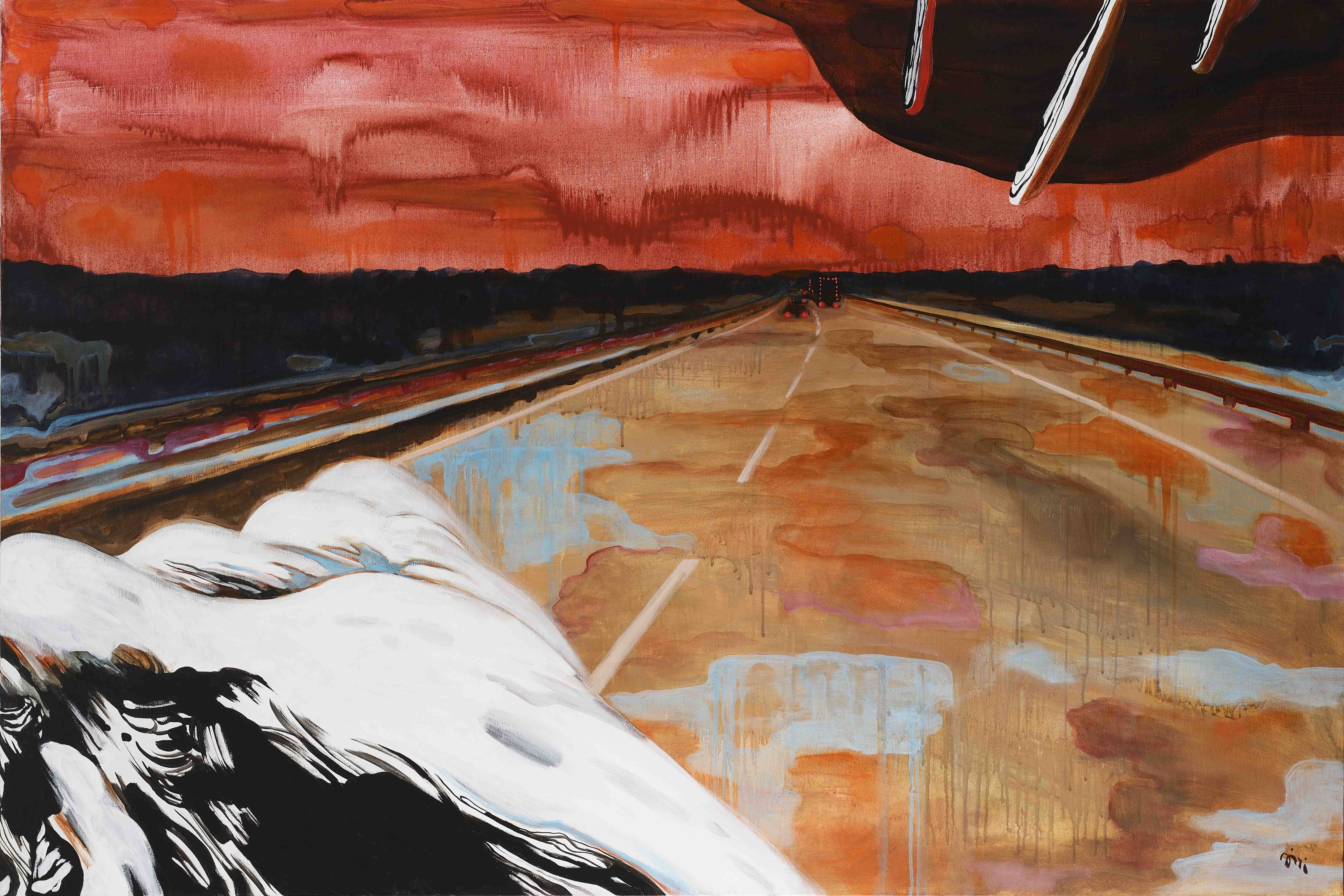 Work of Czech artist Jiří Hauschka